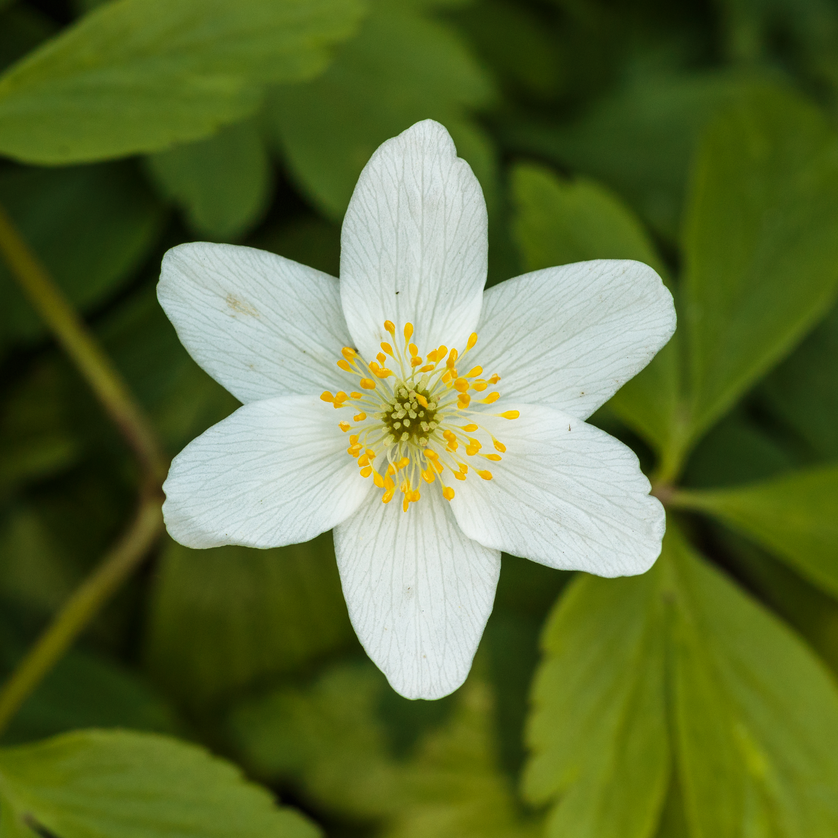 (Anemone nemorosa) Inflorescence.